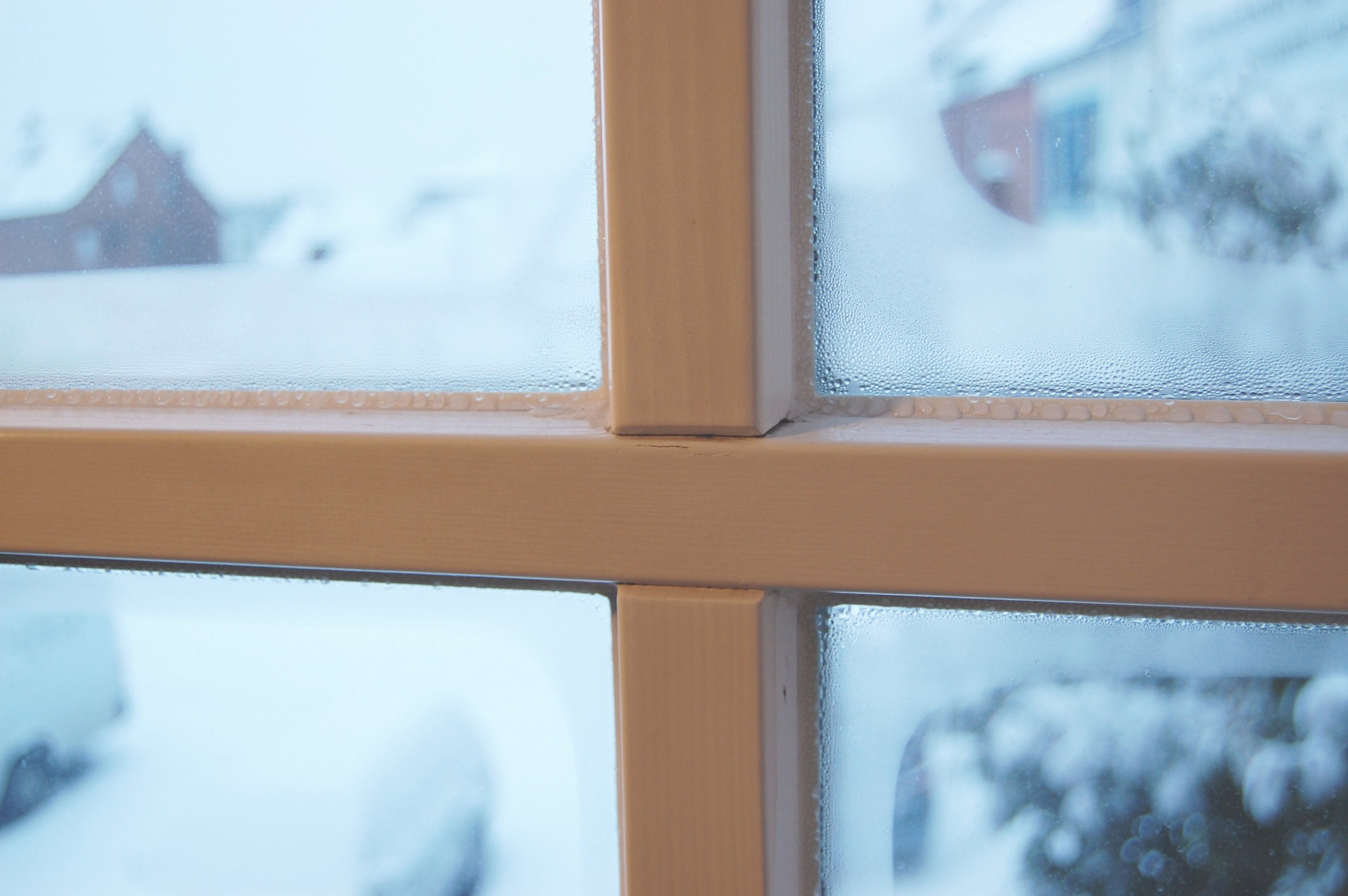 Lattice window with timber frame showing Thermal bridging